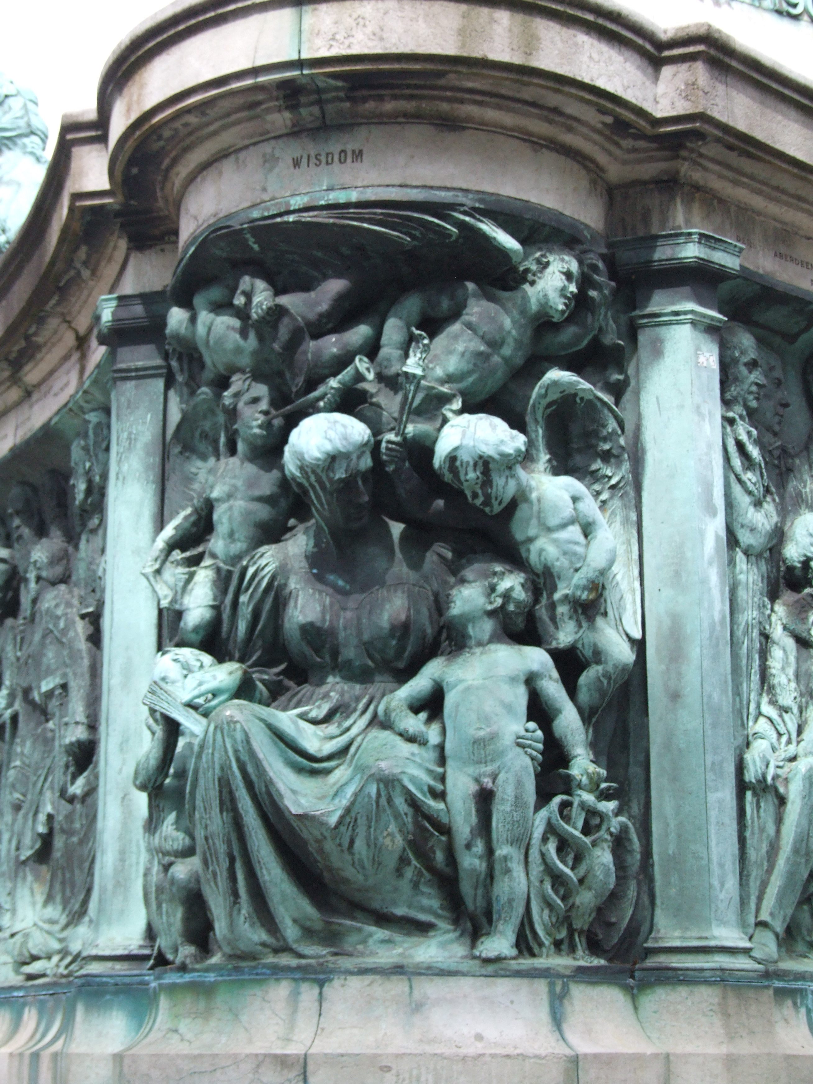 Lord Ashtonin 1906 donated a maginicent monument to Queen Victoria, which was placed in Dalton Square,Lancaster in front of the town hall. The monument celebrates Truth, Justice, Wisdom, and Freedom, and the lives of eminent Victorians. It is topped by four confident lions and Queen Victoria wearing her small diamond crown.